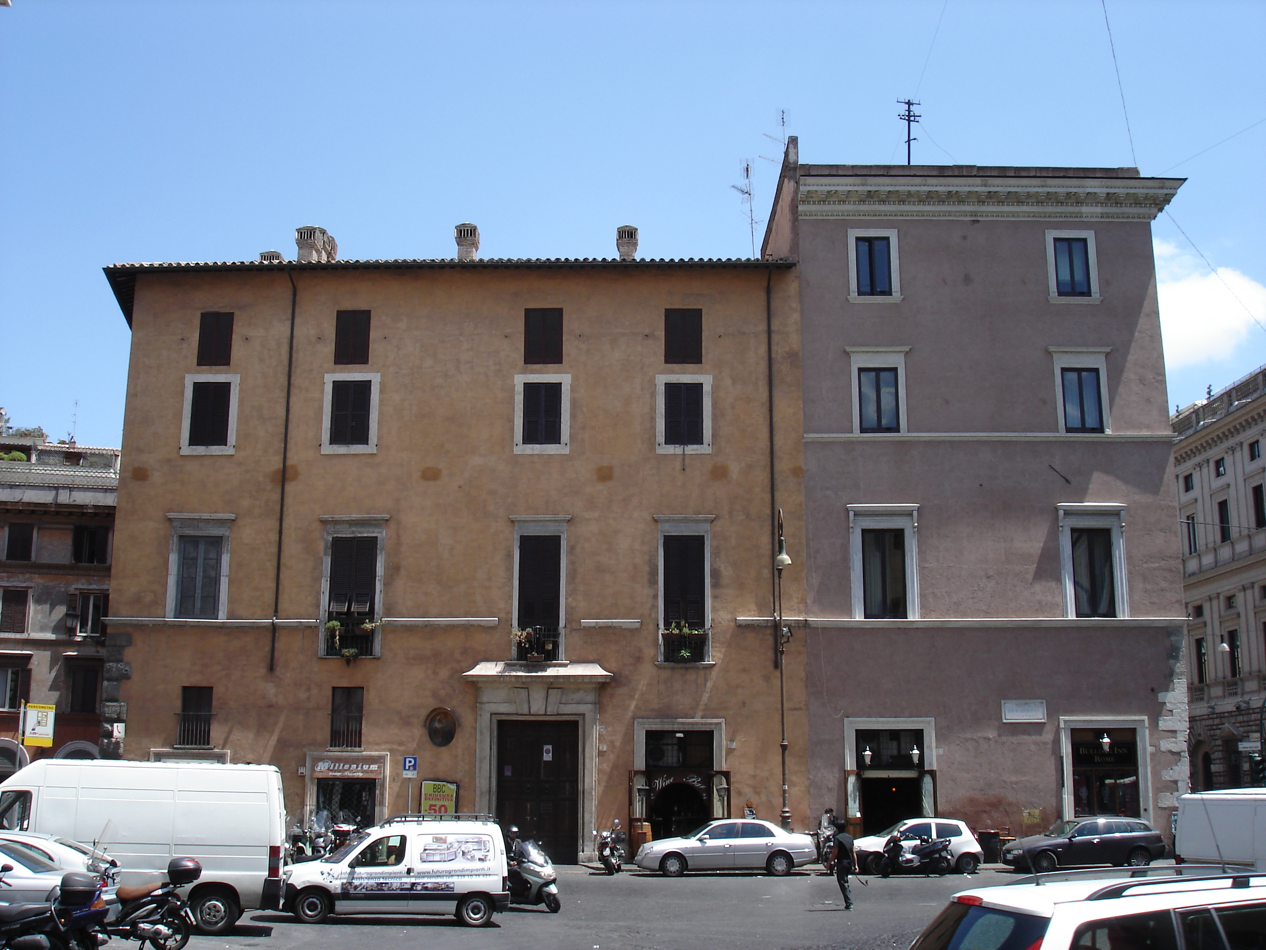 Rome in July.